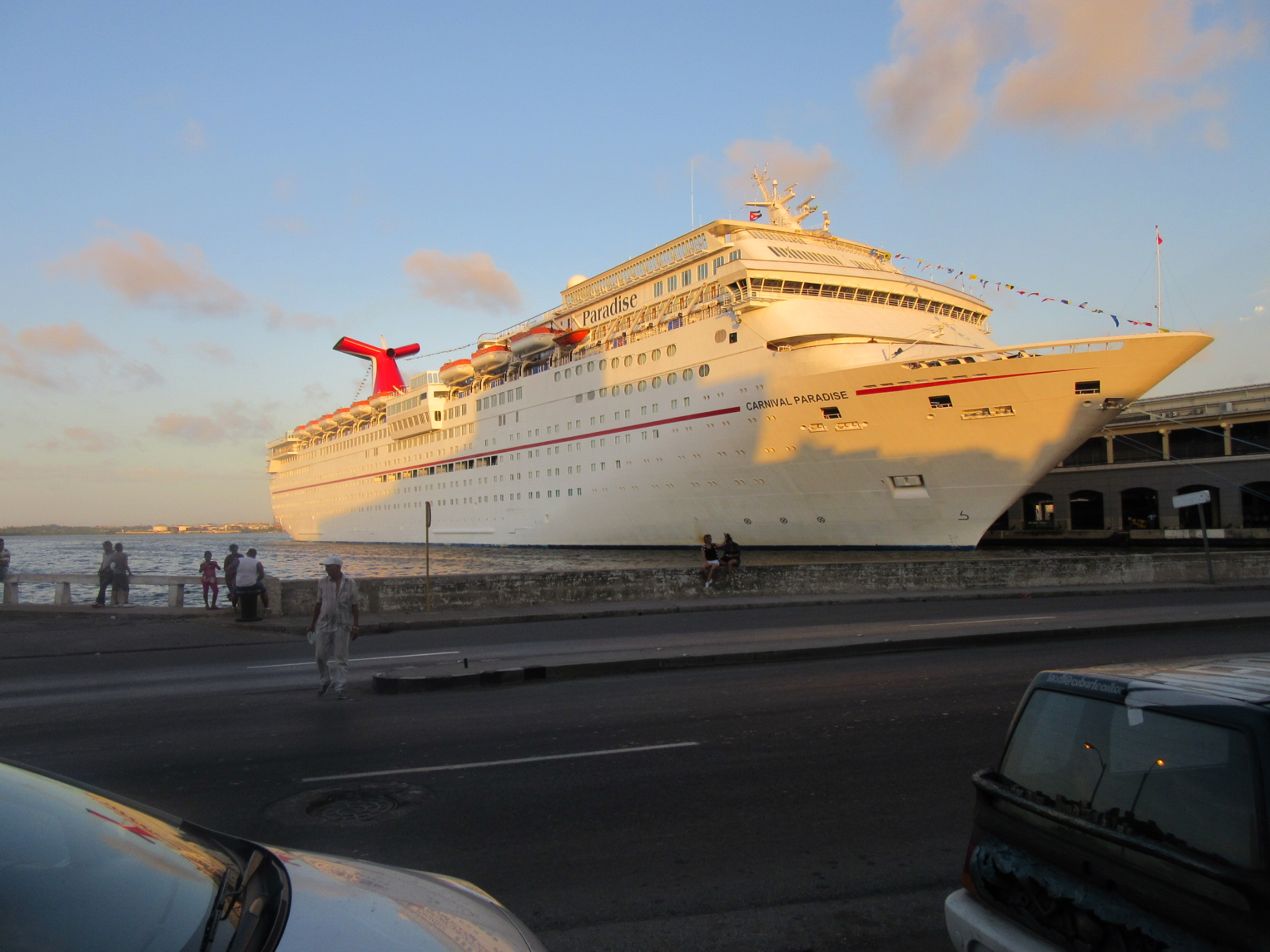 Inaugural visit of Carnival Paradise in Havana, Cuba